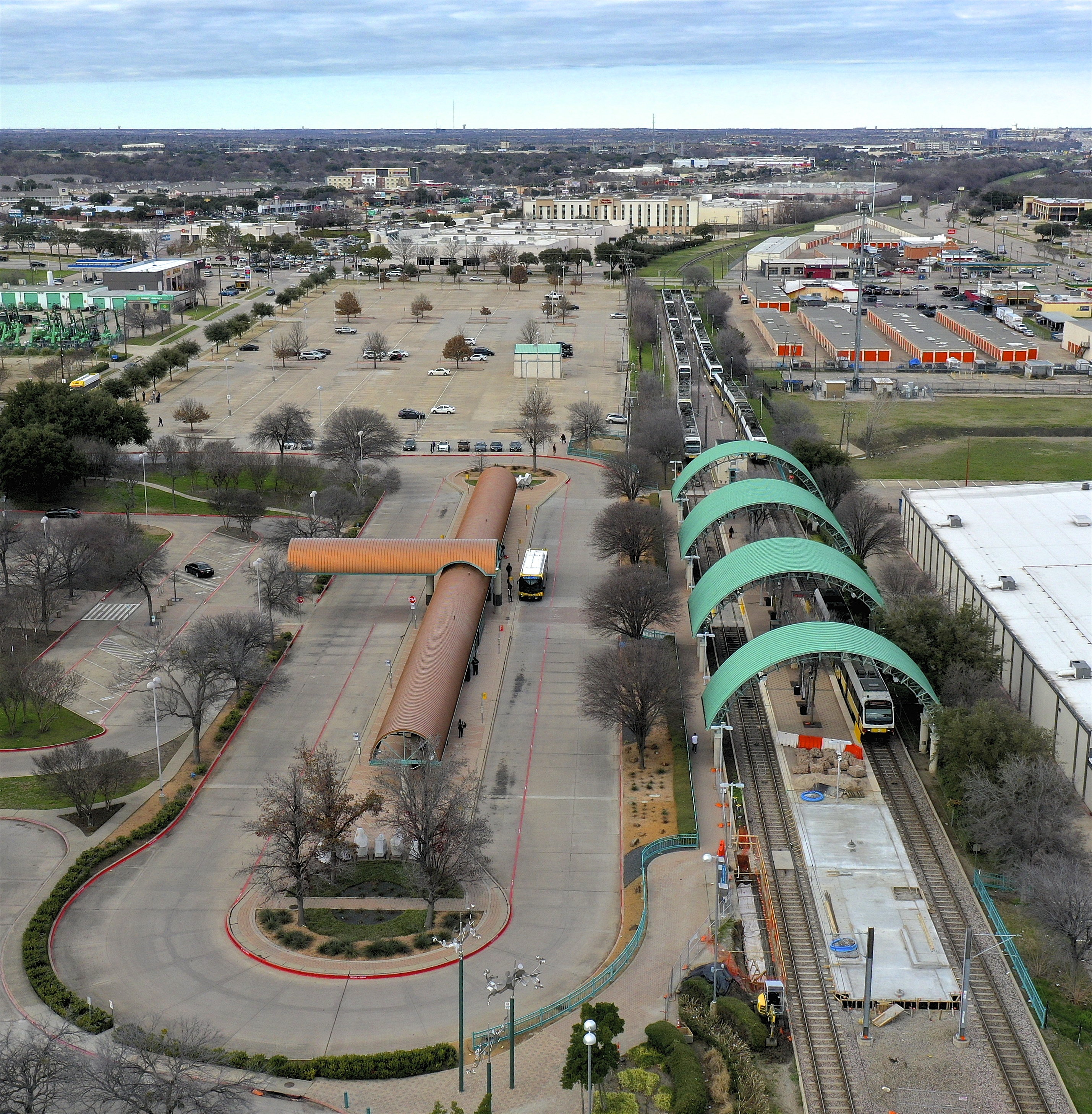 Parker Road station in Plano, Texas, on the DART Light Rail Red Line in February 2020.